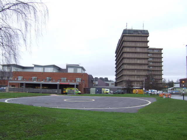 Gloucestershire Royal Hospital Showing the A&E department to the left, the Tower ward block on the right, and the helipad in the foreground.